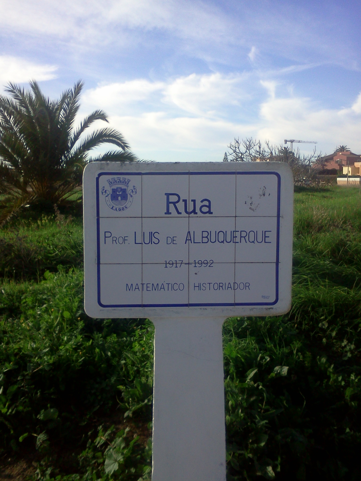 Street sign of Rua José Professor Luís de Albuquerque, in the city of Lagos, in southern Portugal.